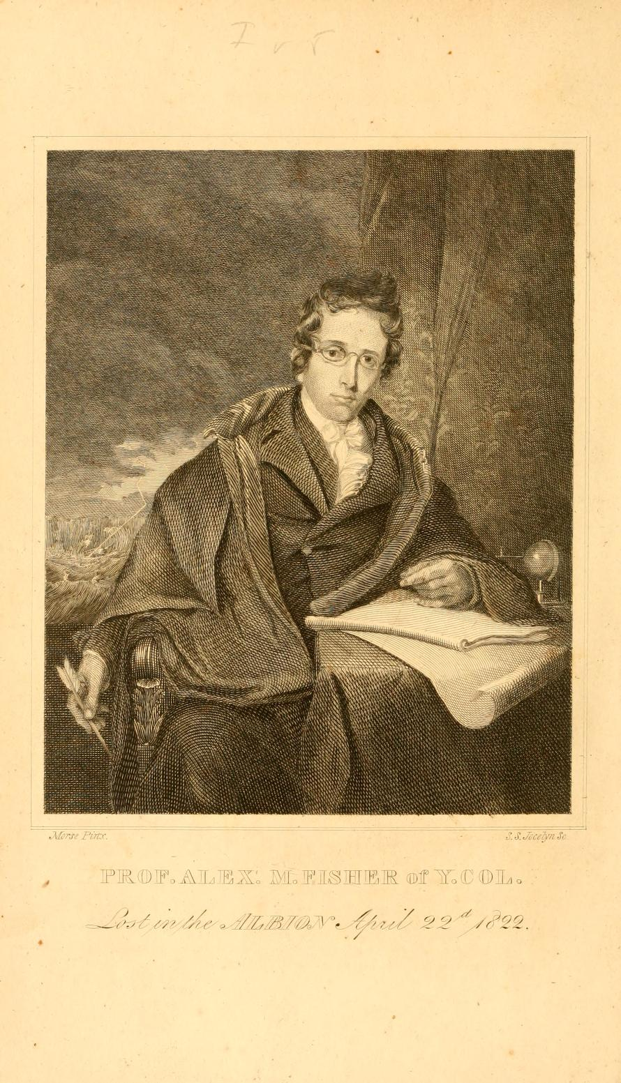 Prof. Alex M. Fisher of Y.COL. (1794-1822), lost in the Albion April 22nd, 1822..Americanjournalo51822newh 0008. Professor Alexander Metcalf Fisher, age 28, head of the Mathematics Department at Yale College (now University) in New Haven, Connecticut. His fiancée, Catharine Beecher (sister of Harriet Beecher Stowe), used the money Fisher bequeathed to her and founded the Hartford Female Seminary. It is due to Fisher’s death that Miss Beecher’s Domestic Receipt-Book, the successful cookbook, was written.